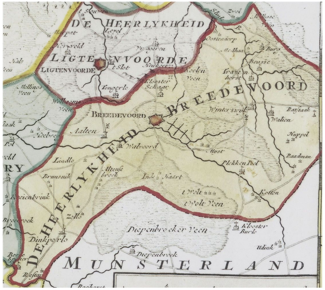 detail of bigger map, Nieuwe kaart van’t kwartier Zutphen, kopperprint, Atlas van de XVII Nederlandsche provintien